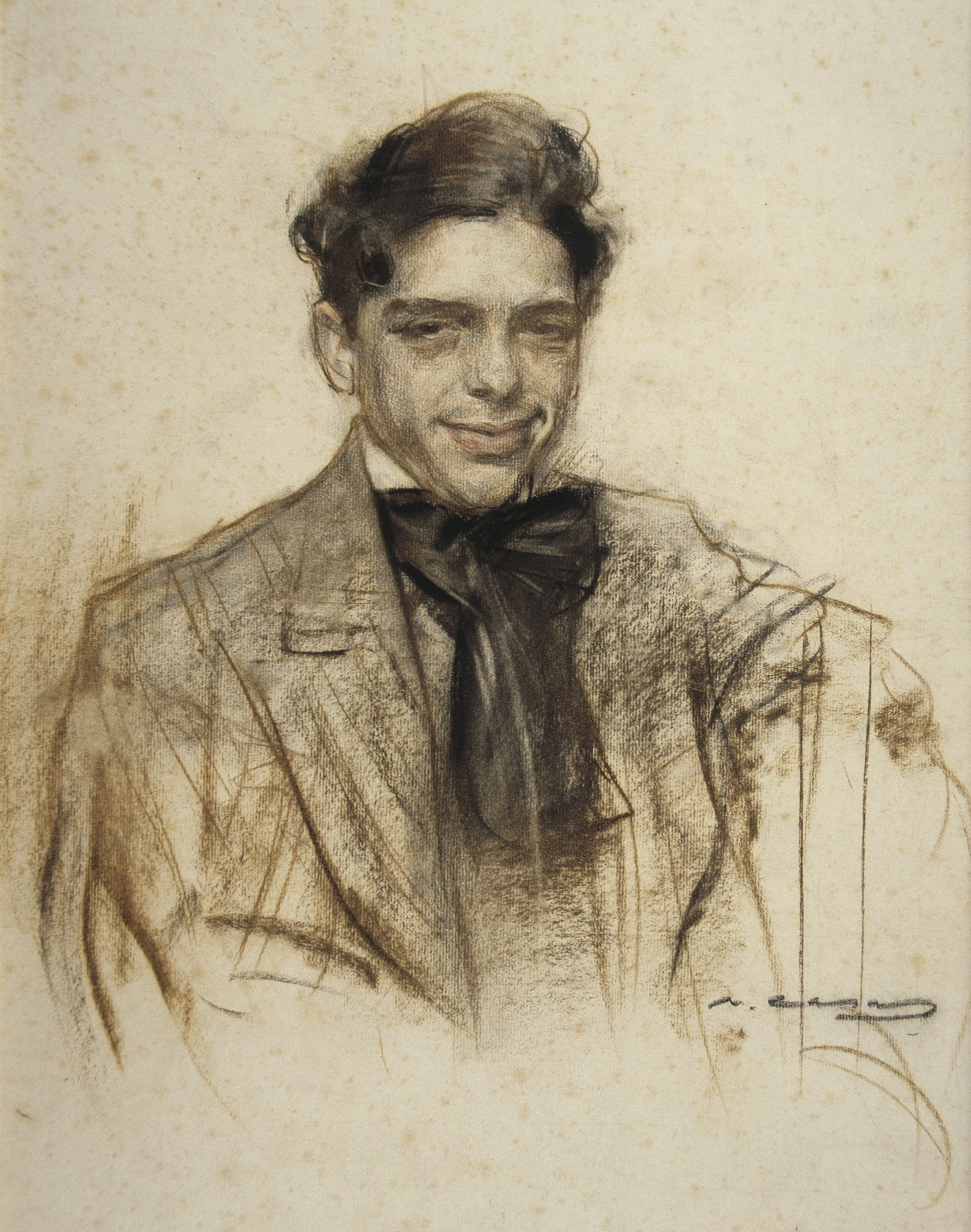 Portrait by Ramon Casas conserved at MNAC in Barcelona.